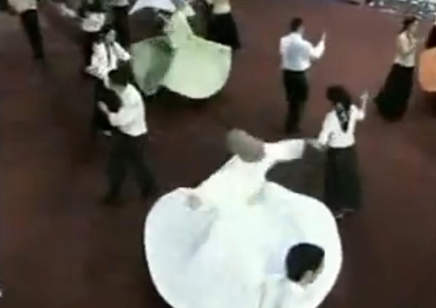 Alevi bektashi cem ceremony